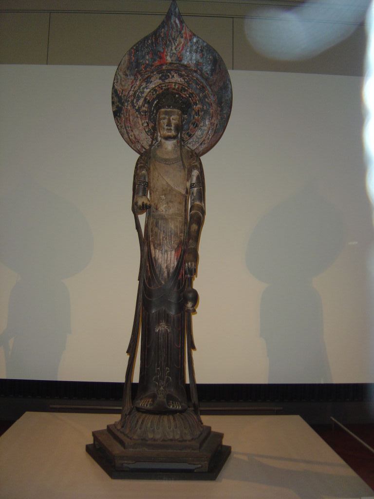 The Kudara Kanon (literally Paekche Avolikitesvara) at the Tokyo National Museum. Asuka period (ca. 552-ca. 650). Wood. This statue may have originated in Korea or was carved by immigrant Korean artisans.